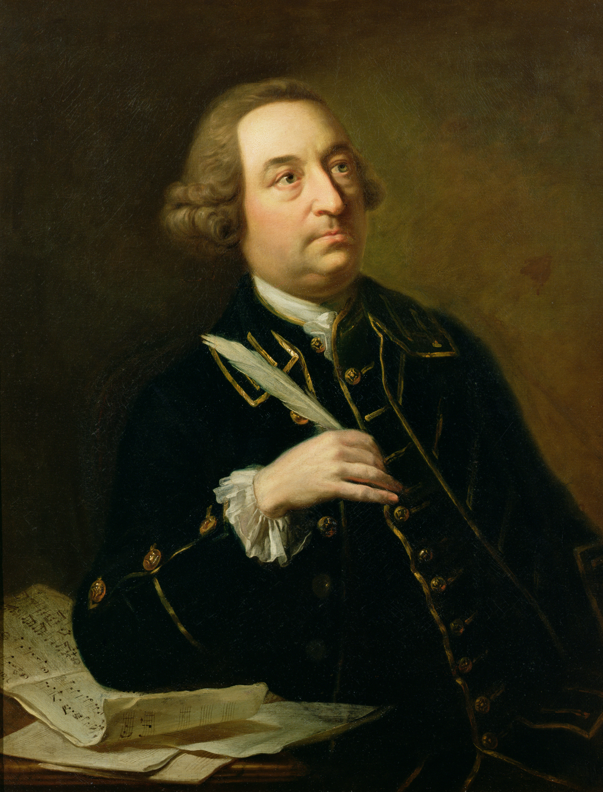 Portrait of John Christopher Smith (1712-1795)